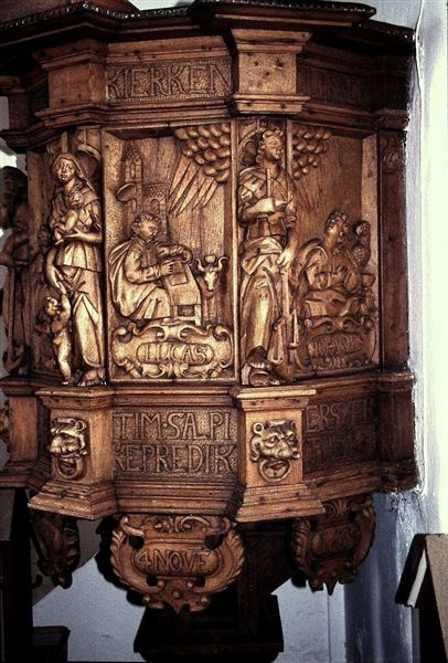 Aidt Church. Pulpit from 1659